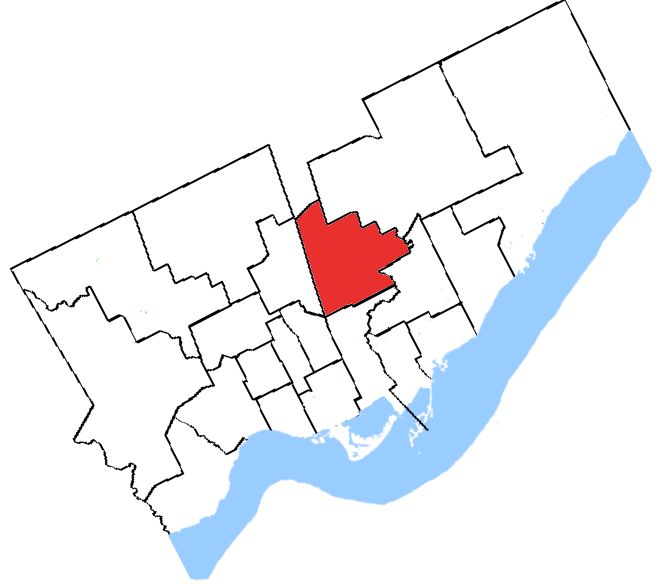 Map of the Don Valley electoral district. Created by SimonP.